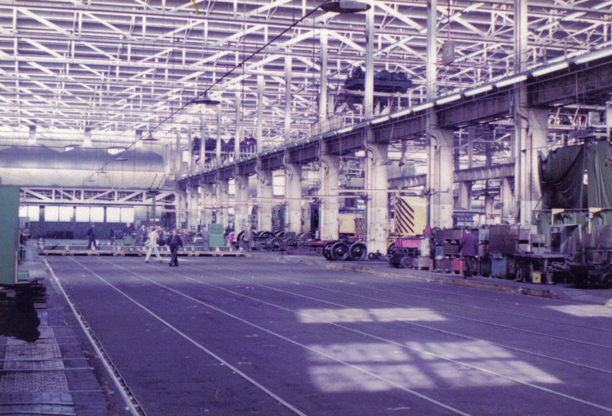 Swindon Railway Works pictured on March 1st 1983, three years before closure.